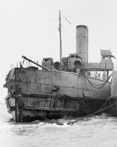 The Mersey ferries HMS DAFFODIL and HMS IRIS II at Dover soon after the vessels returned from the Zeebrugge Raid (22-23 April 1918). The two Mersey Ferry Steamers HMS Iris II and HMS Daffodil at Dover returning after the Zeebrugge Raid, April 1918